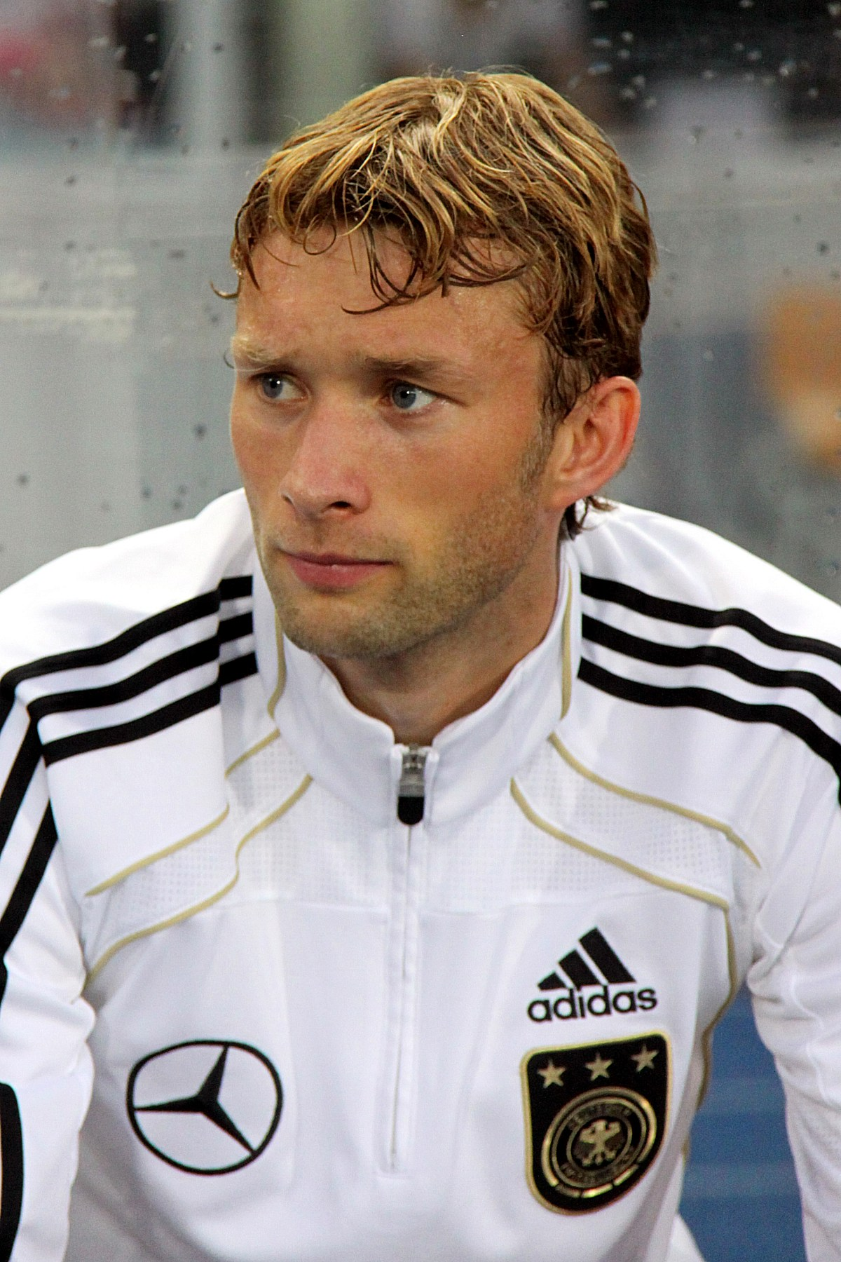 Simon Rolfes (Bayer 04 Leverkusen), german national football team - OpenStreetMap(Info)